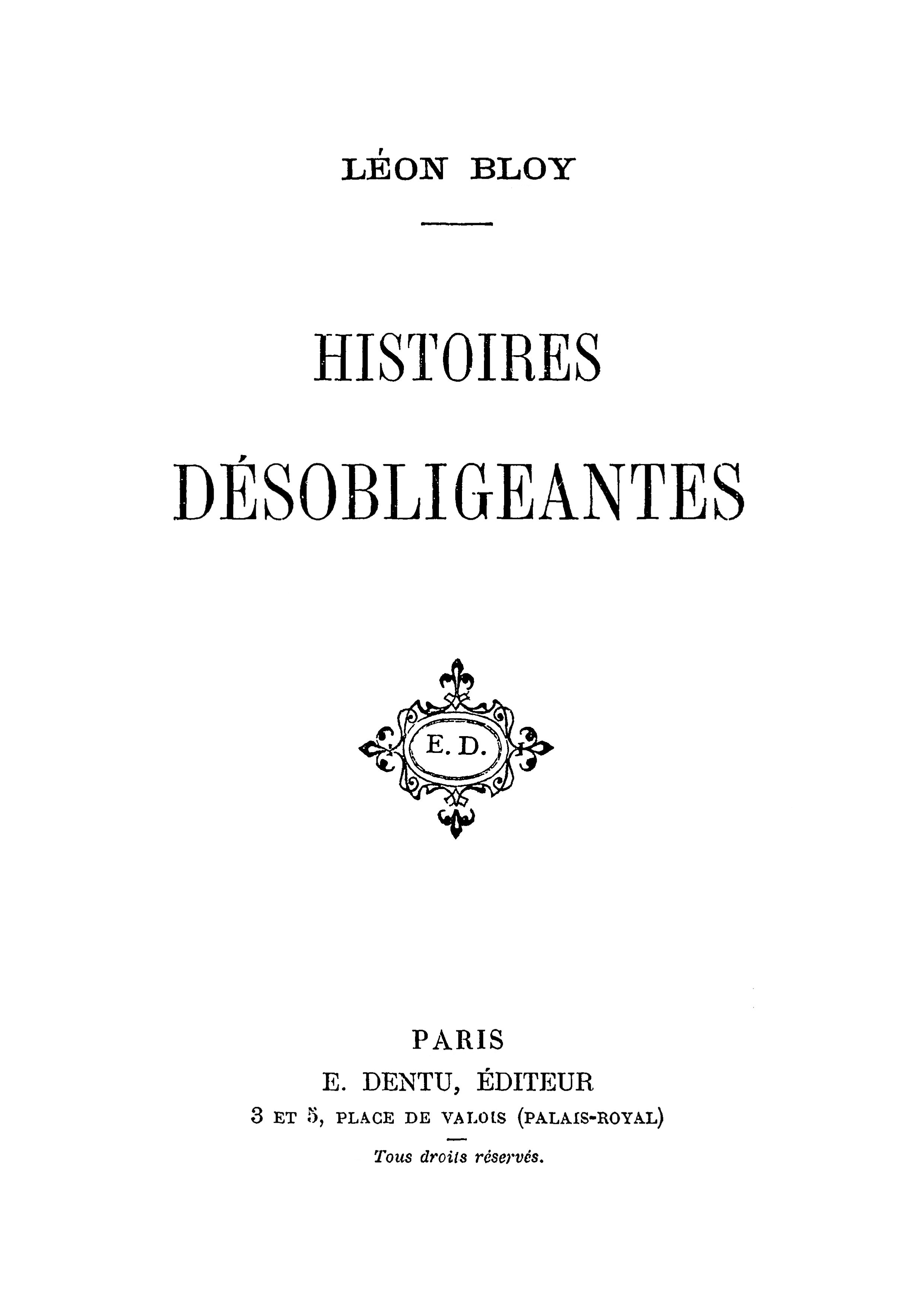 Title page of Histoires Désobligeantes (1894) by Léon Bloy. Cleaned from high-res output of Gallica page scan by Yodin.